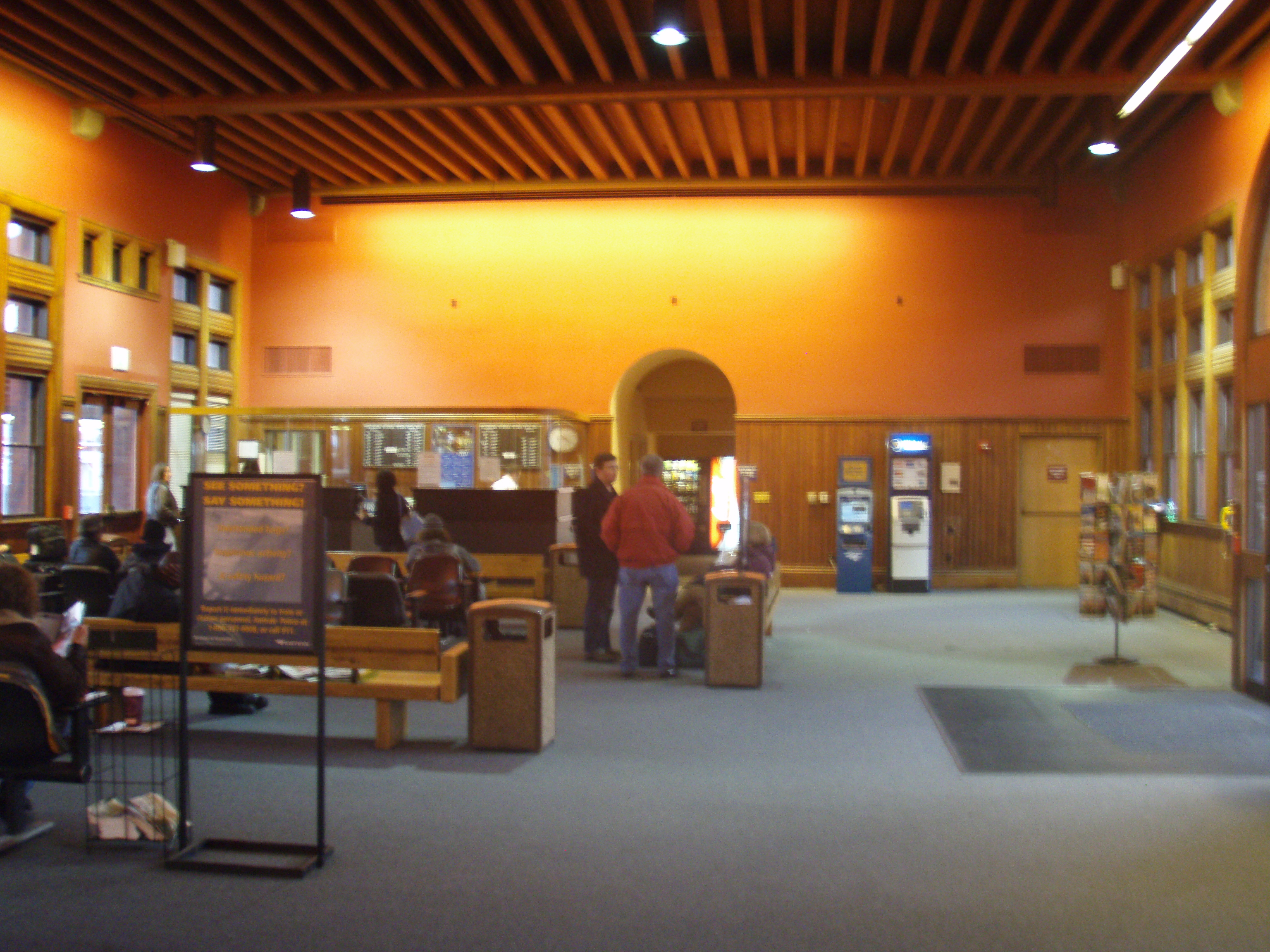 Interior of New London Amtrak station in New London, CT